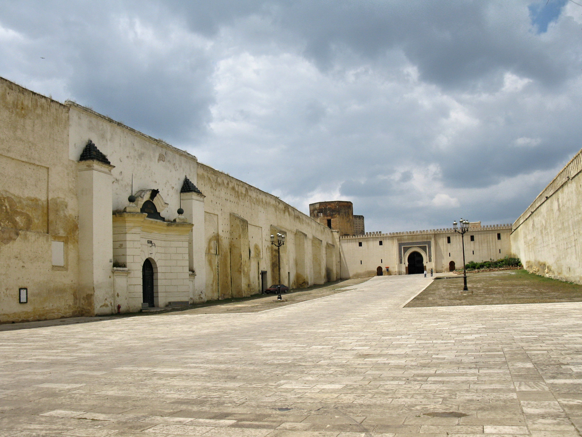 The New Mechouar in Fes, looking north towards Bab Khibbat es-Smen. On the left is the Dar al-Makina.